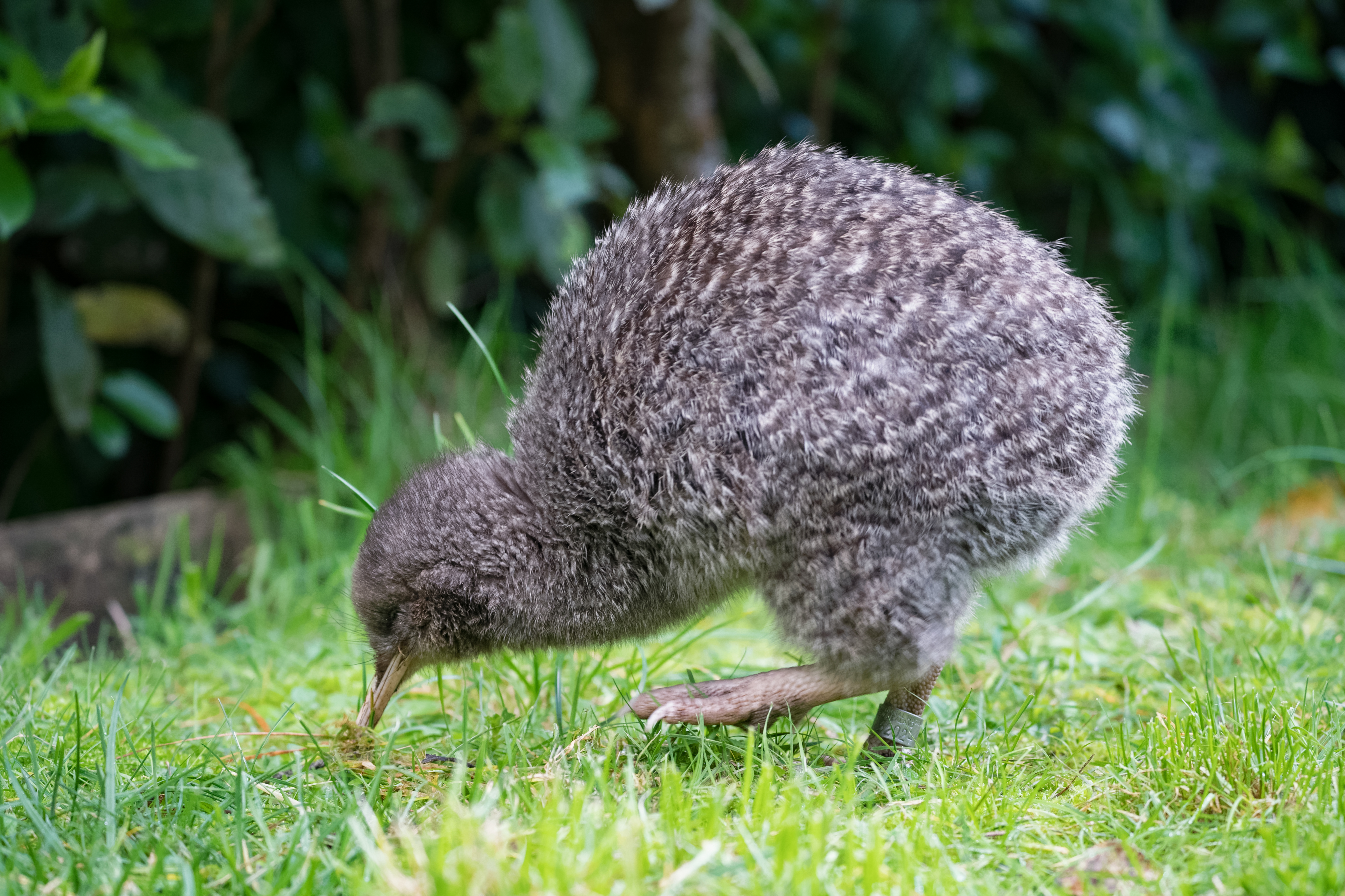 Little spotted kiwi (Apteryx owenii; kiwi pukupuku) foraging, unusually, during the day at Zealandia EcoSanctuary, Wellington, New Zealand.